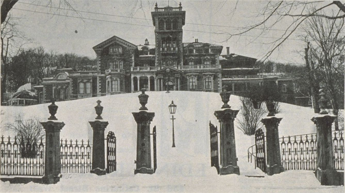 Hugh Allan House "Ravenscrag", 835-1025 Pine Avenue West, Montreal, Quebec, Canada.